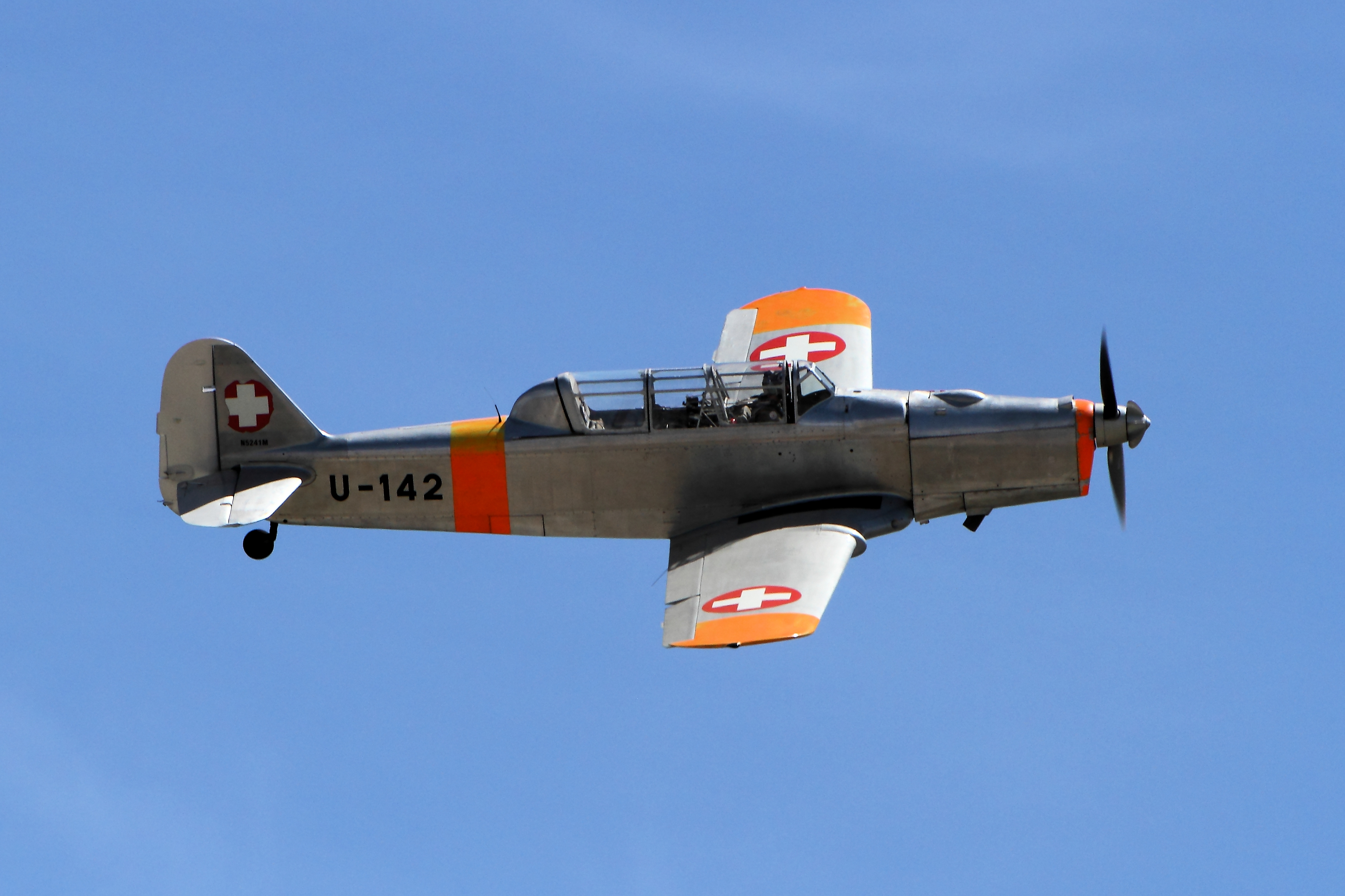 Pilatus P2 Chino Airshow 2014